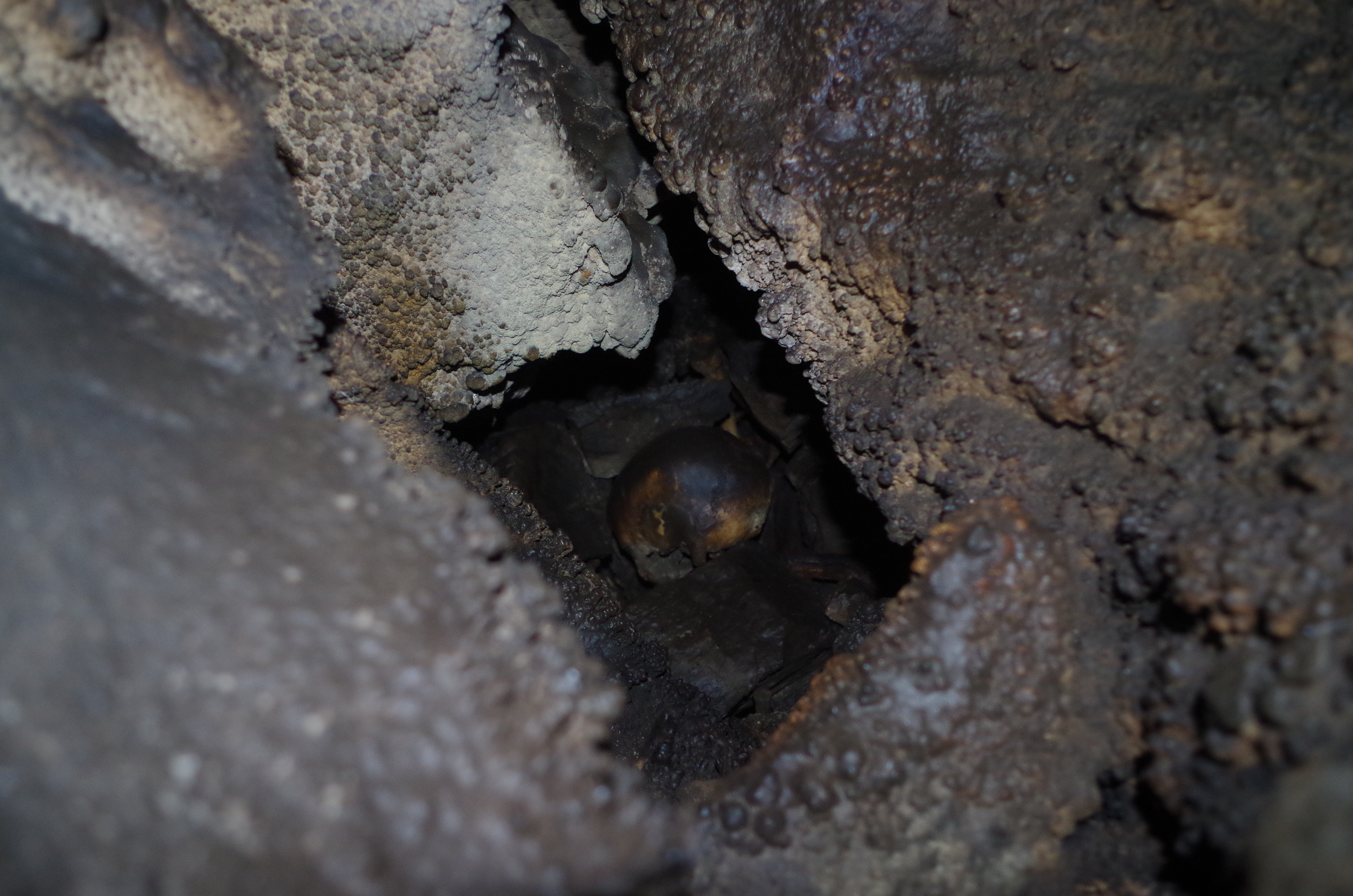 Human skull in the Gulabarnica cave in Porece, Macedonia